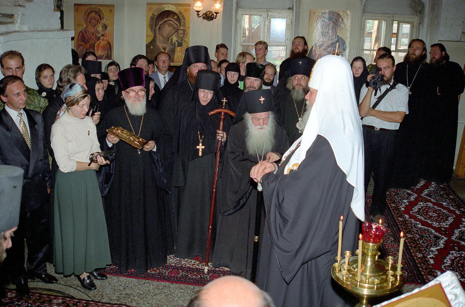 Patriarch Alexy II of Moscow visited Nikolsky monastery in Pereslavl.